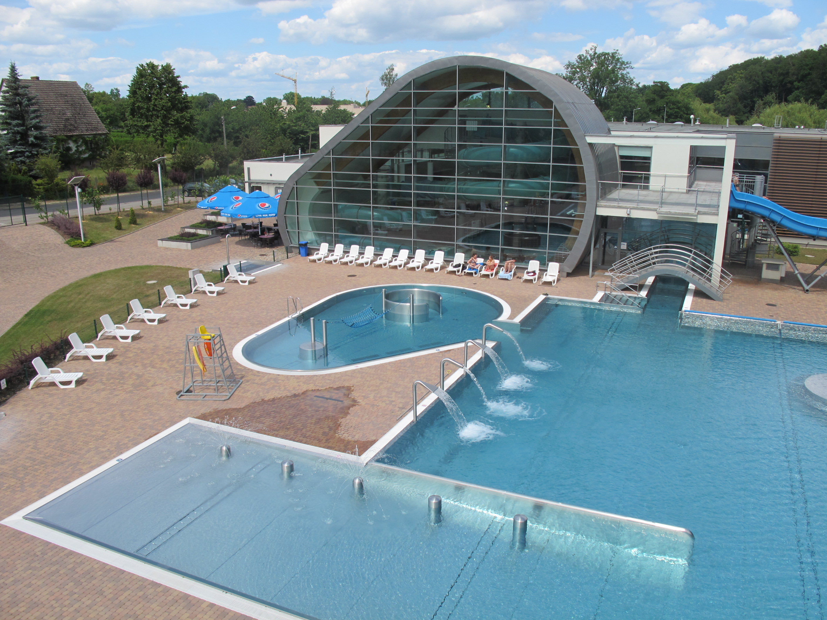 Aquapark Trzebnica, outside part